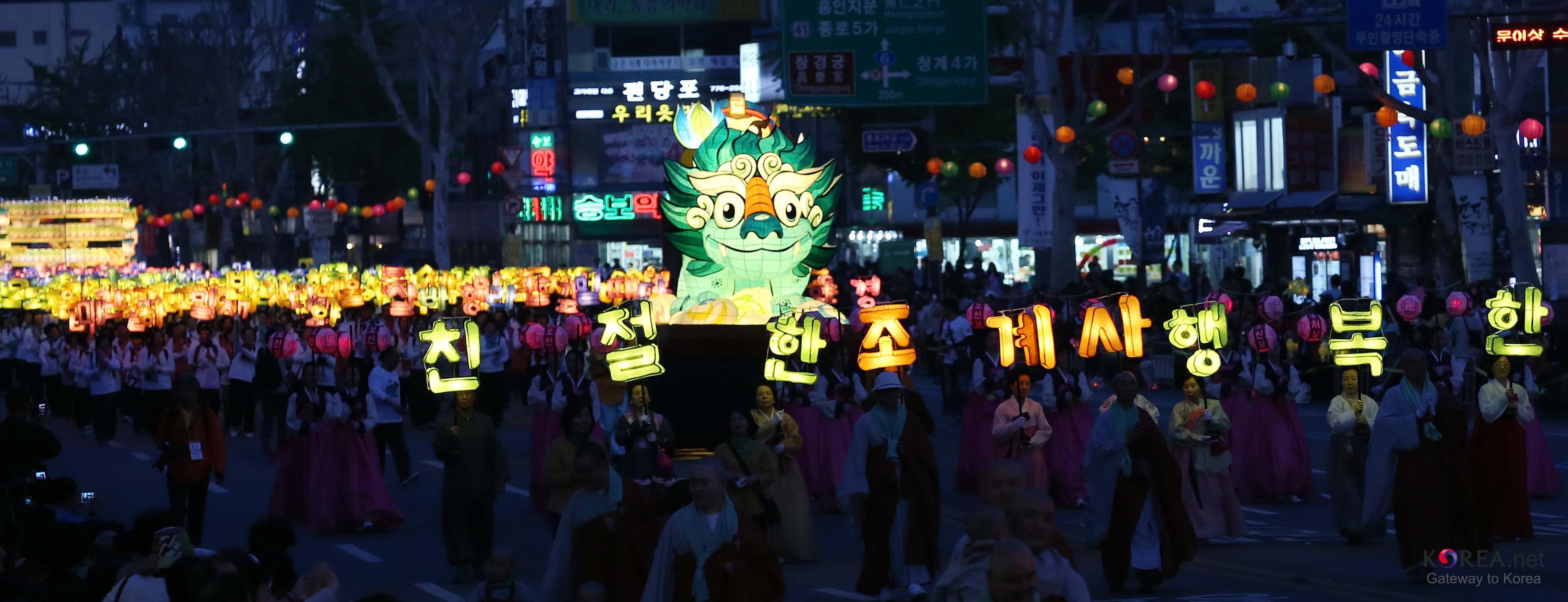 Yeon Deung Hoe (Lotus Lantern Festival) Jongno-gu, Seoul 2013.05.11. -Related Article- "Lotus lanterns light up Seoul night" Ministry of Culture, Sports and Tourism Korean Culture and Information Service Newsroom Jeon Han 연등회 불기2557년 부처님오신 날 맞이 연등회(중요무형문화제 제122호) 조계사 및 종로 일대 문화체육관광부 해외문화홍보원 코리아넷 전한